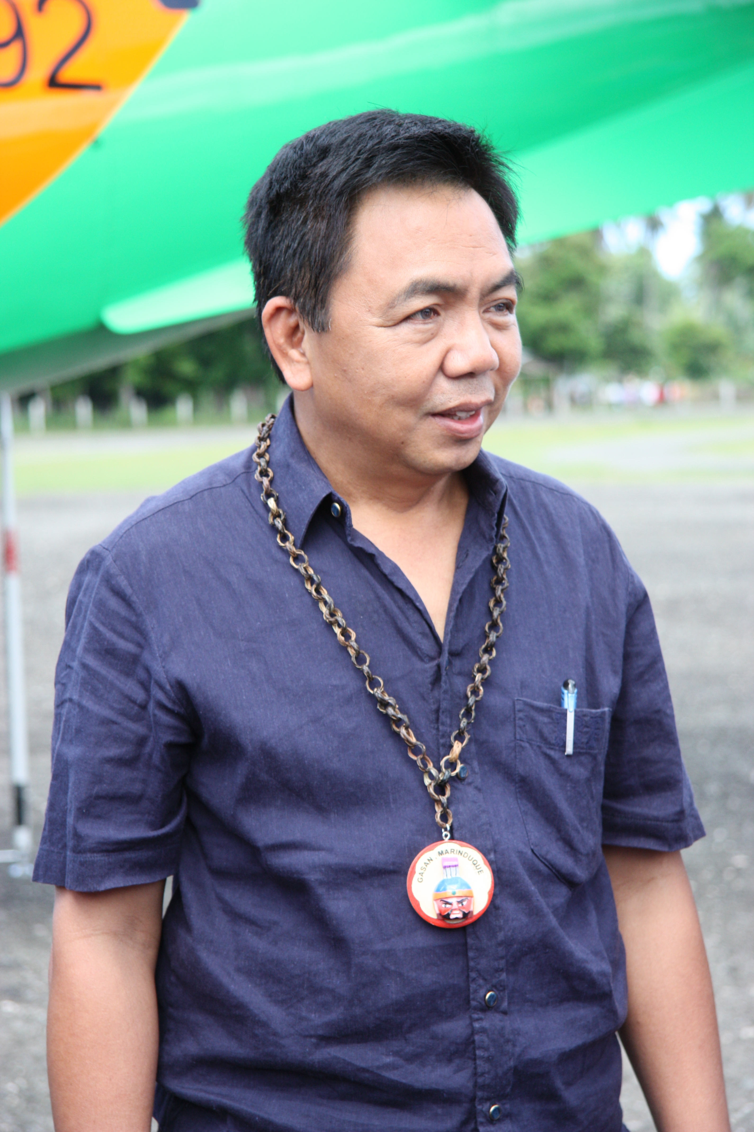 Bayani Fernando, chairman of the Metropolitan Manila Development Authority, on the tarmac of Marinduque Airport in Gasan, Marinduque, Philippines Tagalog: Si Bayani Fernando, ang tagapangulo ng Pangasiwaan sa Pagpapaunlad ng Kalakhang Maynila, sa rampang pampaliparan ng Paliparan ng Marinduque sa Gasan, Marinduque, Pilipinas